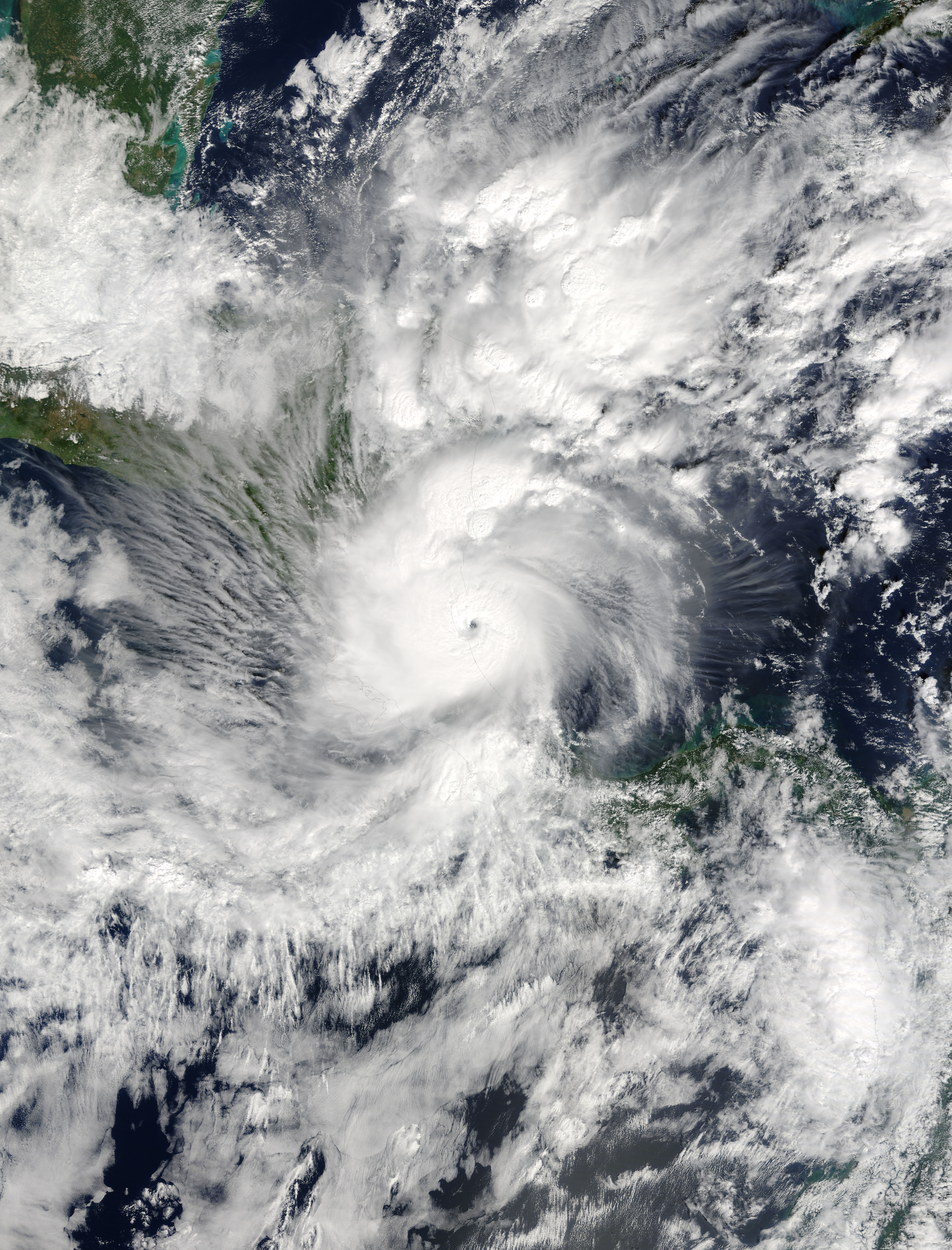 Hurricane Otto at peak intensity and immediately before making landfall over the southeast coast of Nicaragua on November 24, 2016.